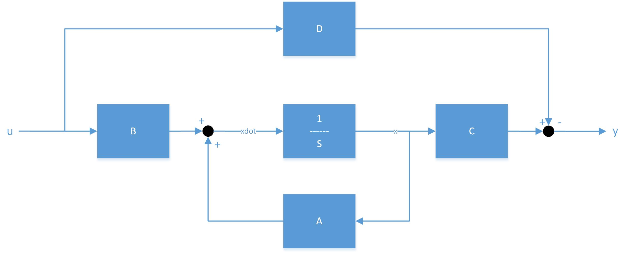 System in open loop xdot(t) = A.x(t) + B.u(t); y(t) = C.x(t) + D.u(t)